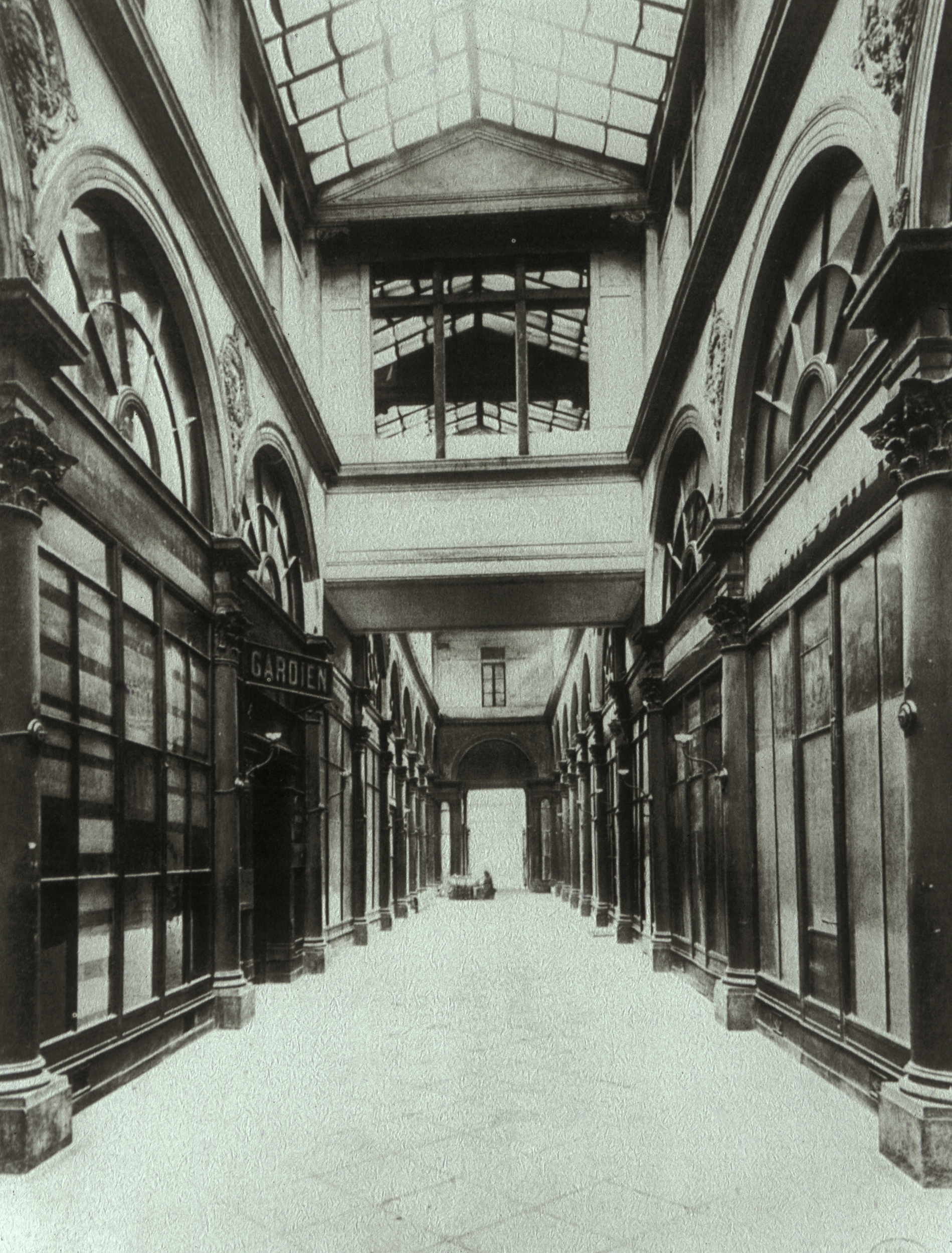 Inspired by the charm and success of the Galerie Vivienne, the Galerie Colbert was built in 1826 in an attempt to duplicate the splendor of its predecessor. The Galerie's artistic refinements, such as the various paintings and statues that decorate the interior, as well as its glass roof supported by marble columns, served to distinguish it from its contemporaries. Its main attraction, however, was its enormous rotunda, measuring 15 meters in diameter and by which visitors could access the rue Vivienne. Despite its impressive architecture and artistic charm, the Galerie Colbert never experienced the economic success that its creators anticipated. After a series of minor demolitions, the Galerie Colbert was temporarily closed in 1975 but rebuilt in 1985 under the direction of the Bibliothèque nationale. The new Galerie is a close reproduction of the original and an attempt to preserve its architectural and artistic designs. It is located in the second arrondissement parallel to the Galerie Vivienne.